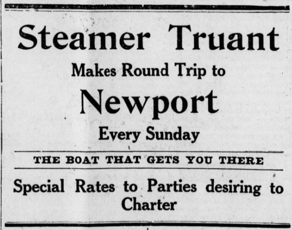 Advertisment for steamer Truant which operated on Yaquina Bay from 1910 to about 1919, and later on the Columbia River. This advertisement appeared on June 16, 1911 in the Lincoln County Leader, published in Toledo, Oregon.